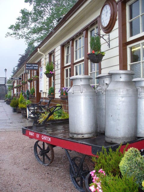 On the Strathspey Railway Period furniture on the platform at Boat of Garten railway station. Steam trains now run from Aviemore, through here, to Broomhill. Eventually it is planned that they reach Grantown again.